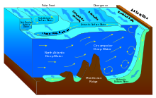 Water Mass